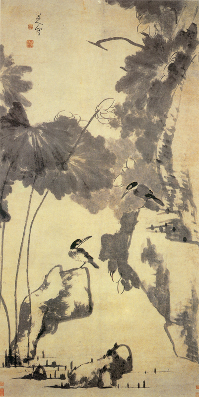 Lotus and Birds, Zhu Da, Qing Dynasty, China, Shanghai Museum